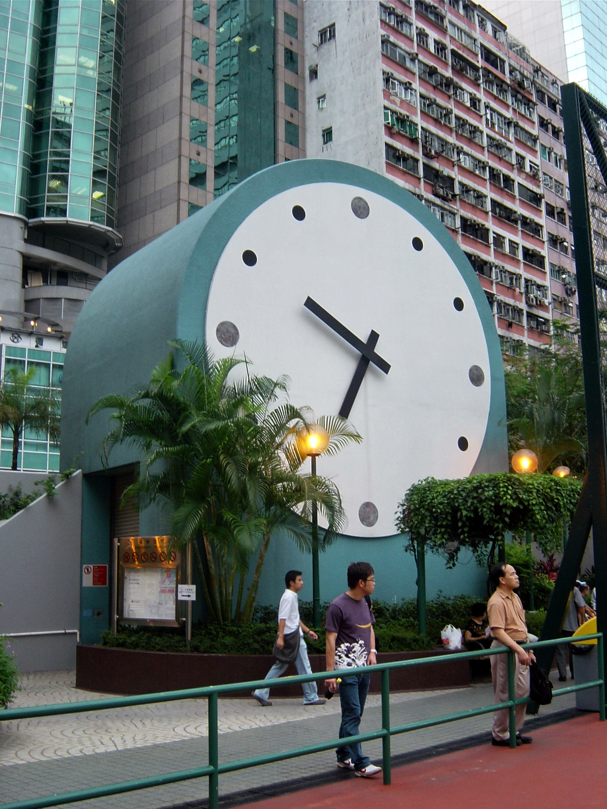 Southorn Playground in Wan Chai, Hong Kong.